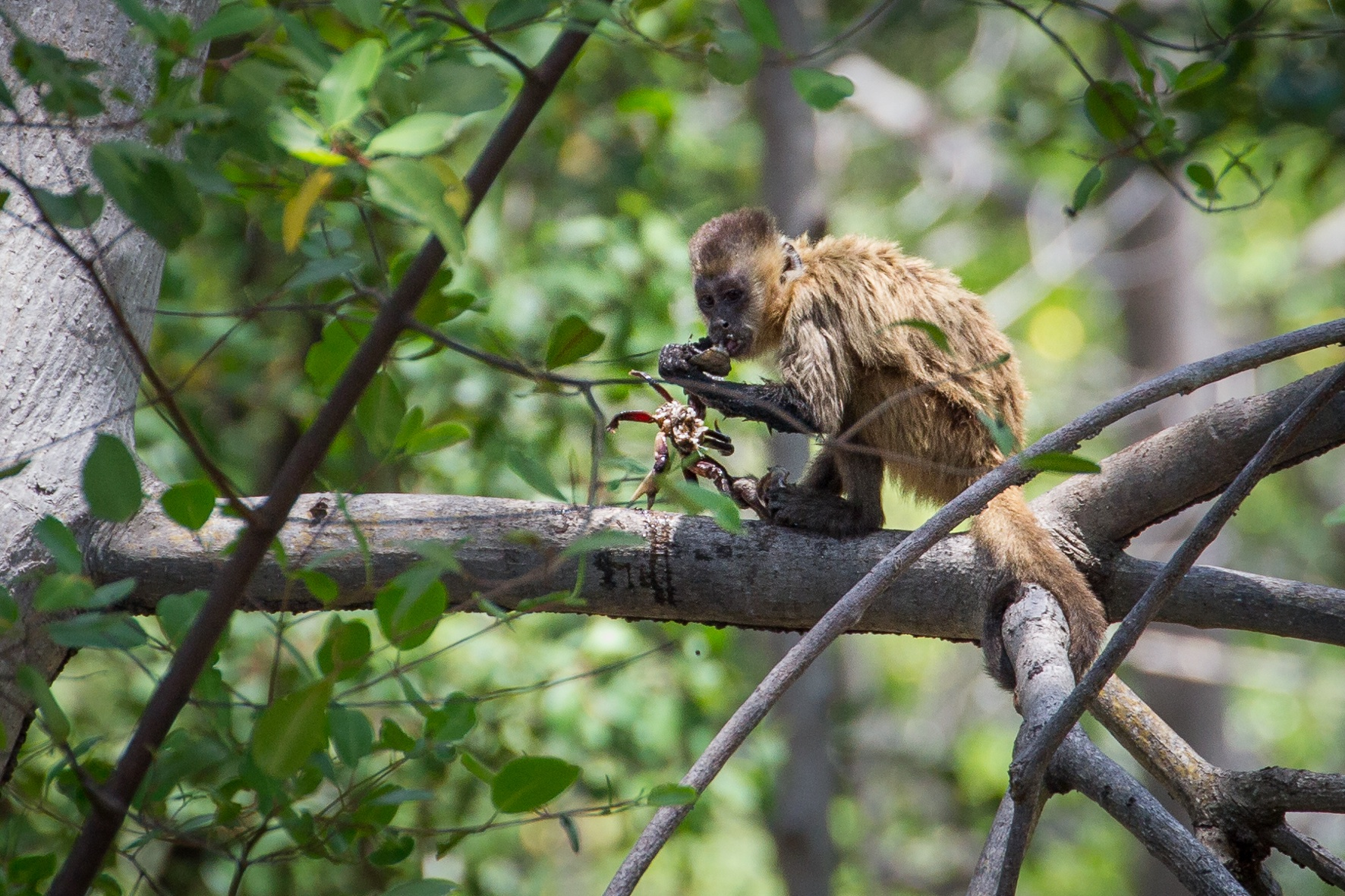 Bearded capuchin monkey (Sapajus libidinosus) eating a crab in Parnaíba delta.